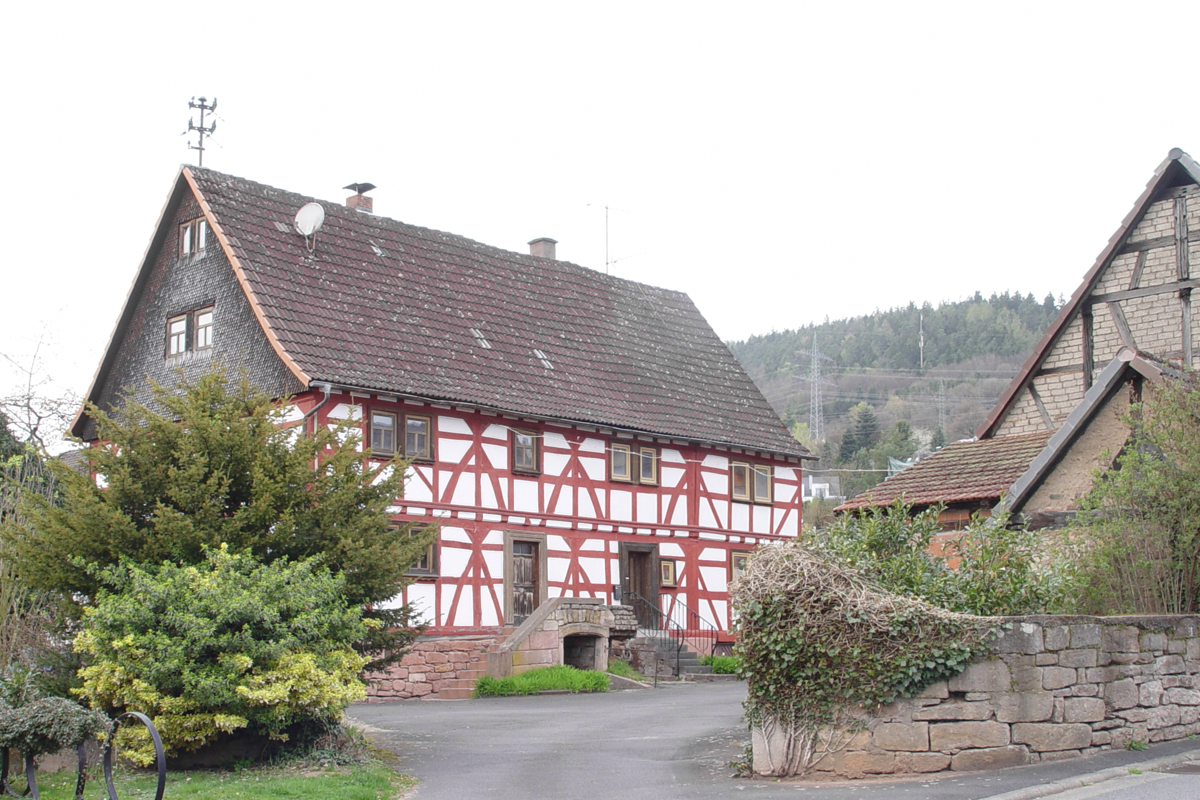 Laufach, Hain im Spessart, Auweg 1, timber frame building, designated "1721"This is a photograph of an architectural monument.